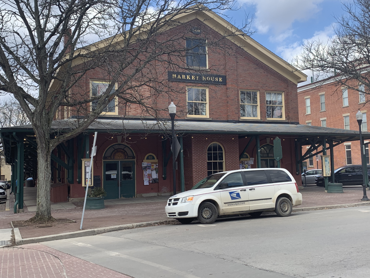 This Image shows another establishment of Meadville that animals would be auctioned off until it turned into a breakfast place